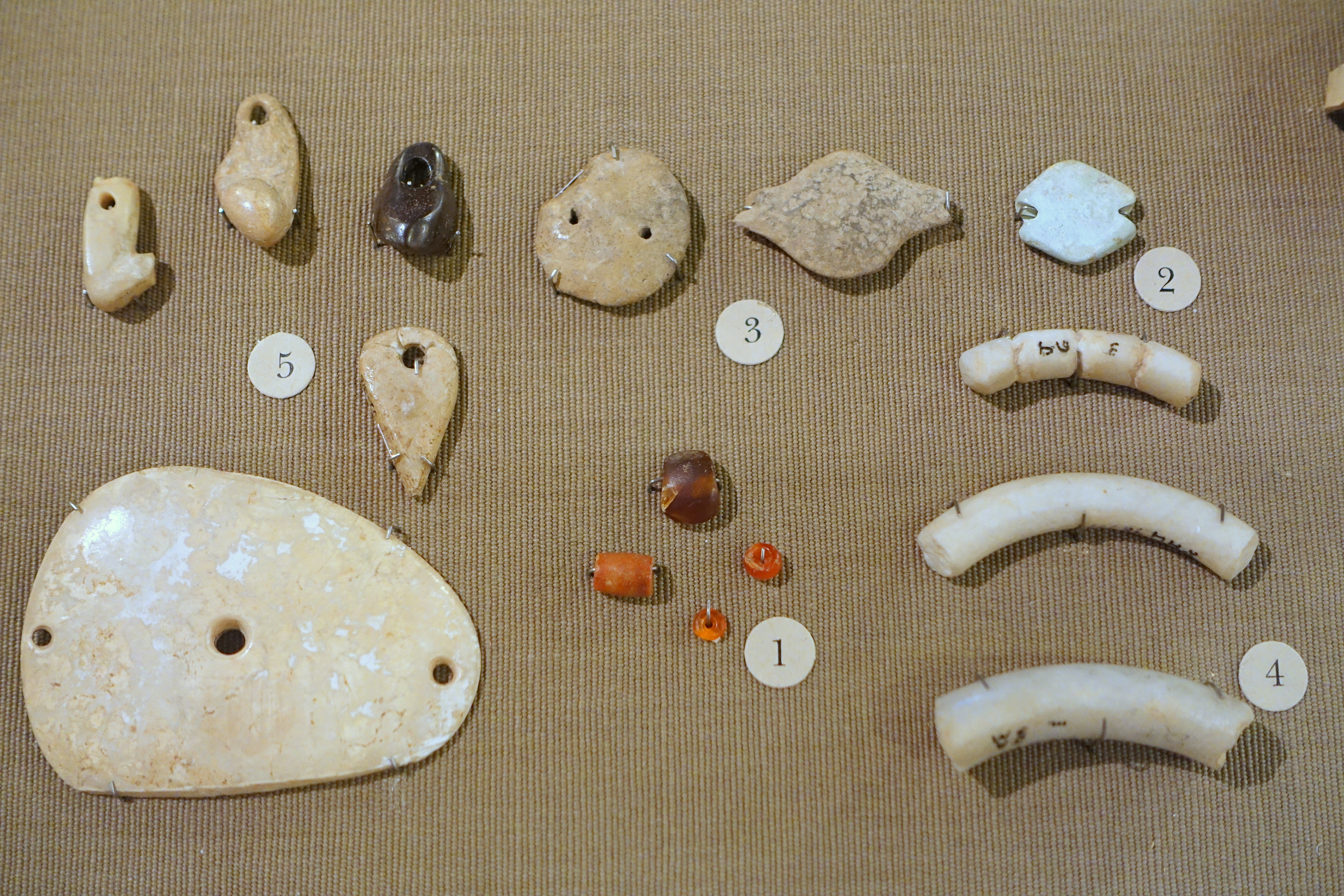 Exhibit in the Oriental Institute Museum, University of Chicago, Chicago, Illinois, USA. This work is old enough so that it is in the public domain.